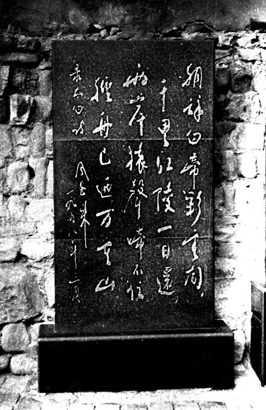 A bronze plaque of Li Bai poem with Zhou Enlai's calligraphy.